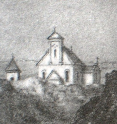 Church of Saint Nicholas in Hierniony by Napoleon Orda